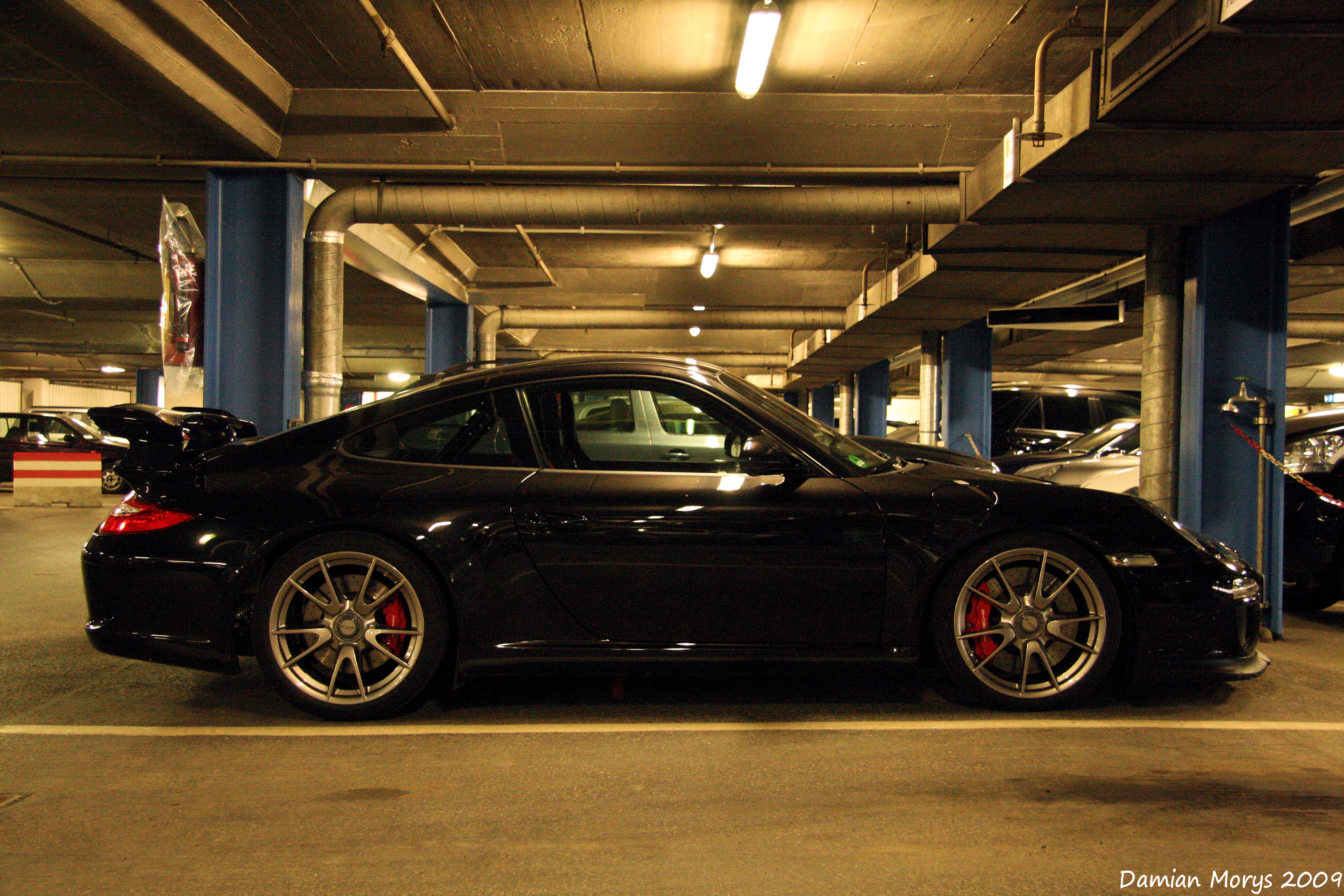 Sick new GT3 from Germany in a parking garage in St. Moritz.